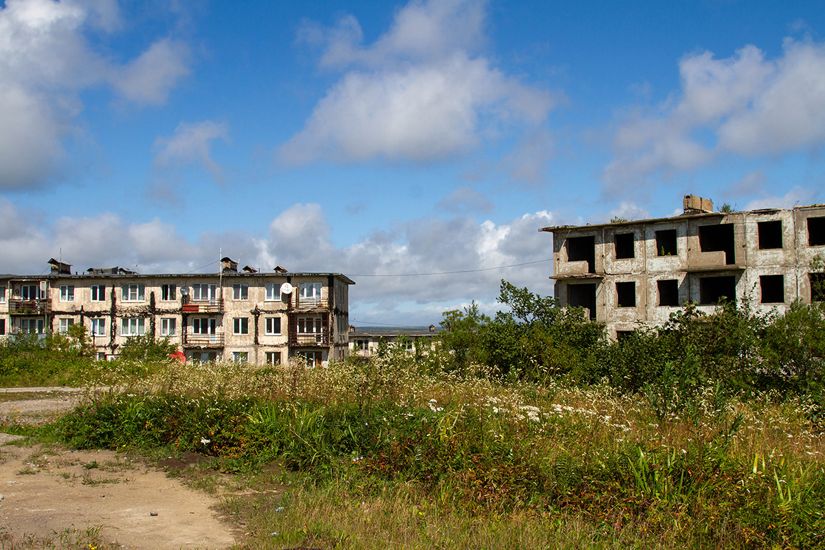 Kurils island, Iturup, Gornoe